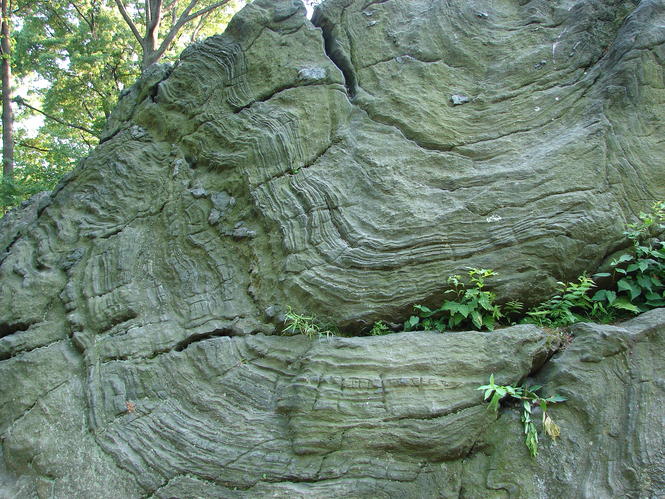 Metamorphic sedimentary Manhattan schist rock in Central Park in New York City.